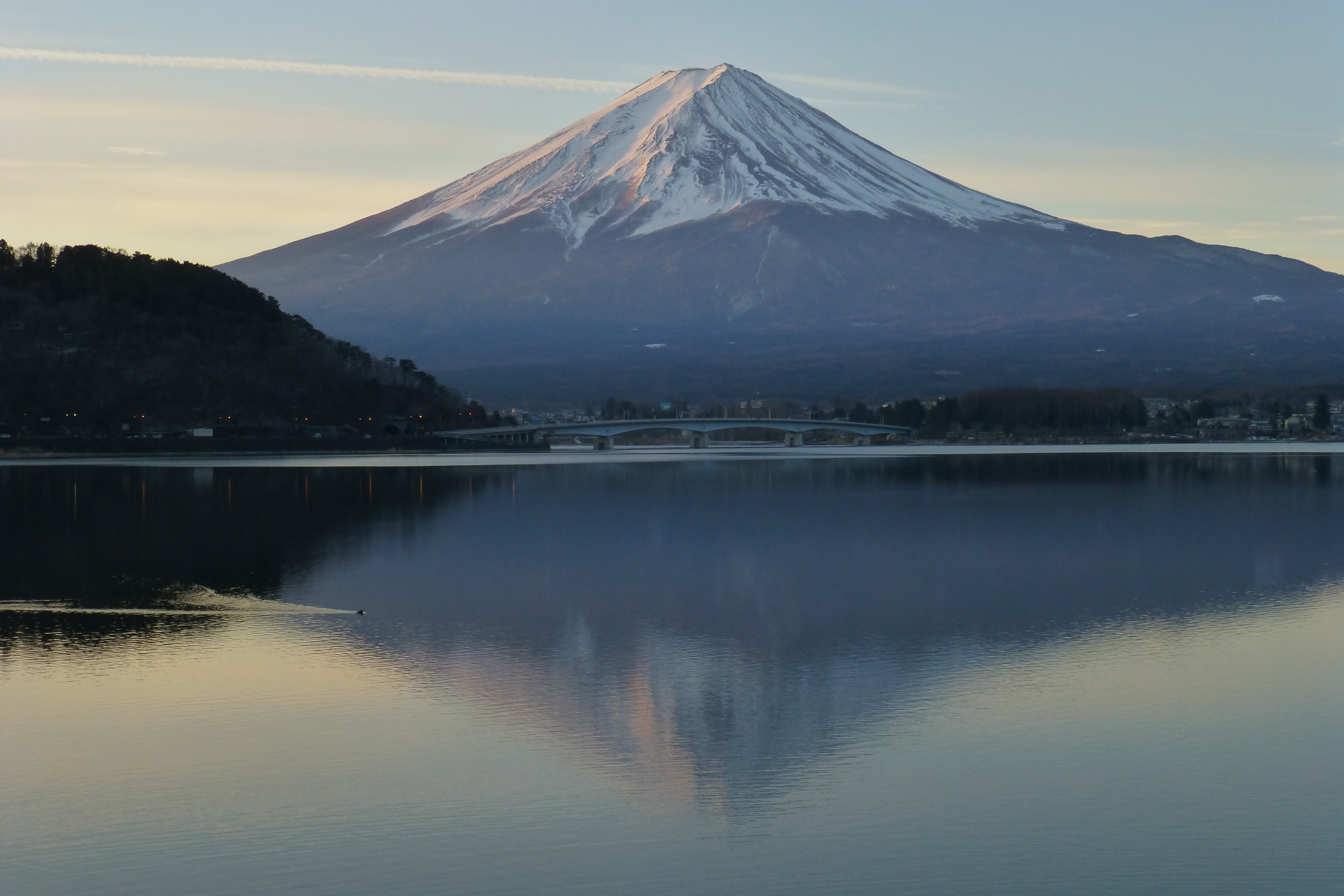 Mount Fuji above Lake Kawaguchi (Kawaguchi-ko) in Japan. January 20, 2014.